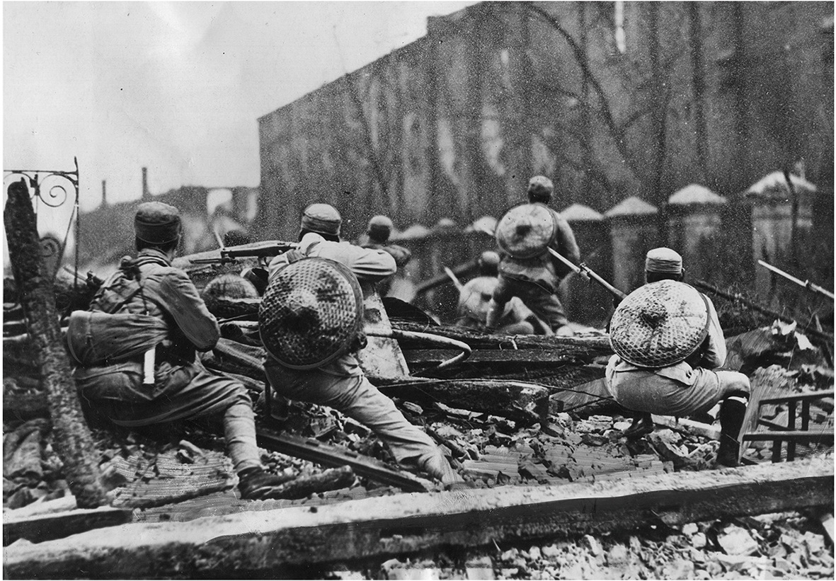 Chinese 19th Route Army in defensive position in the Battle of Shanghai (1932)